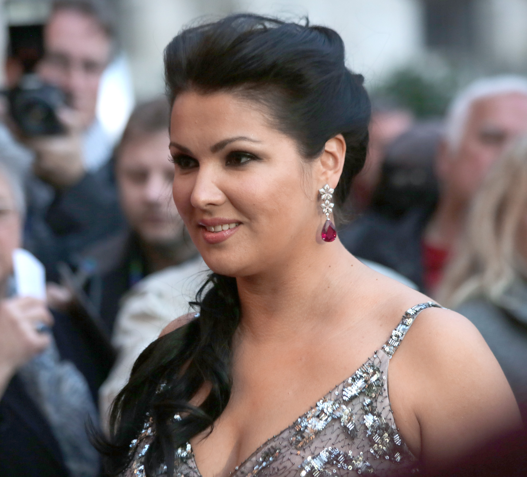 Anna Netrebko at the Romy film awards (Hofburg Imperial Palace in Vienna)